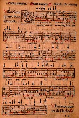 Juan Vásquez's score.